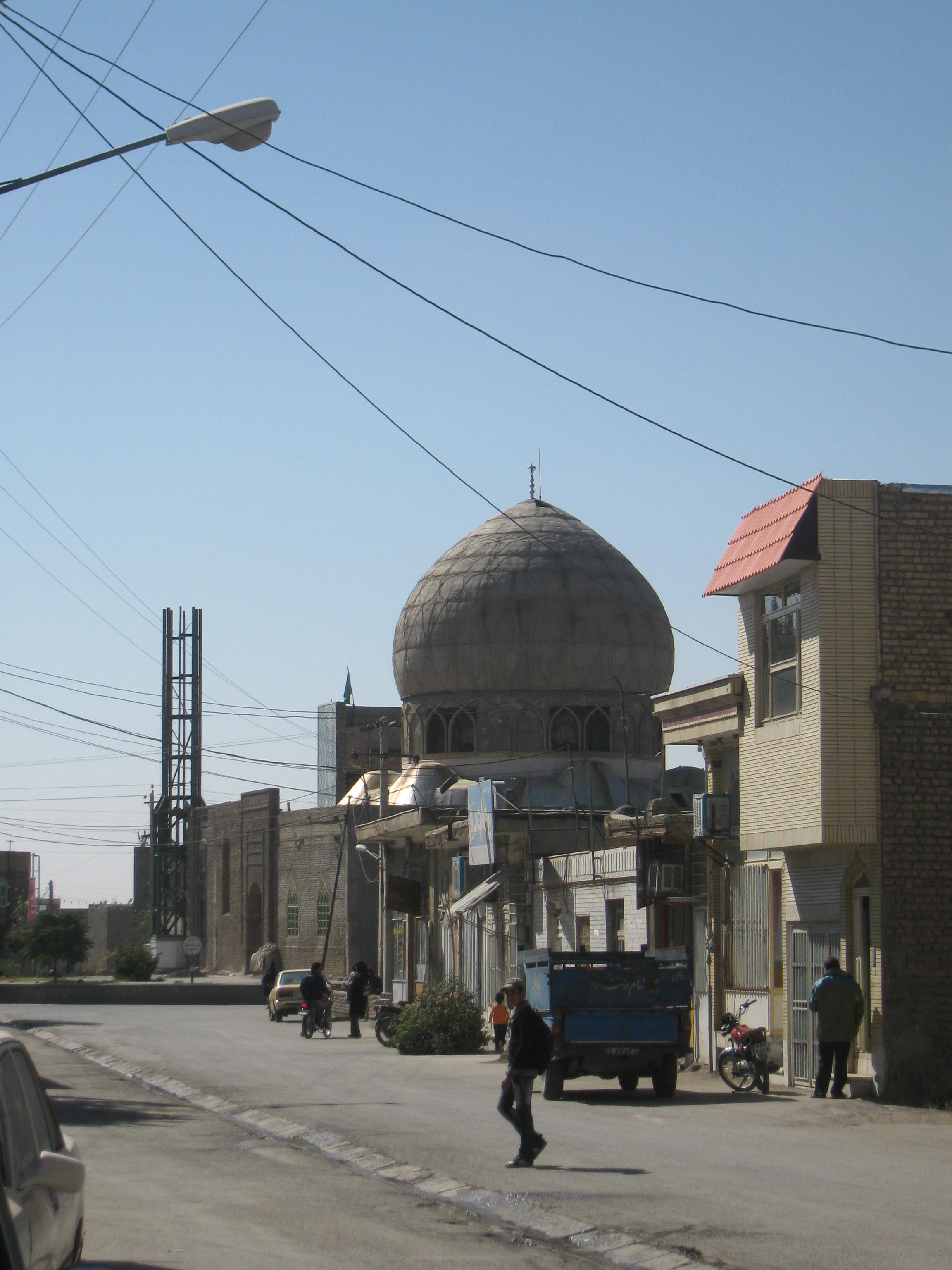 Shatita Mosque (Bibi Shatiteh) Dome and zone view - Nishapur